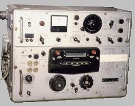 R-250M2 military long range communications and intelligence HF receiver (USSR, late 1950s). Also used widely by amateur operators.